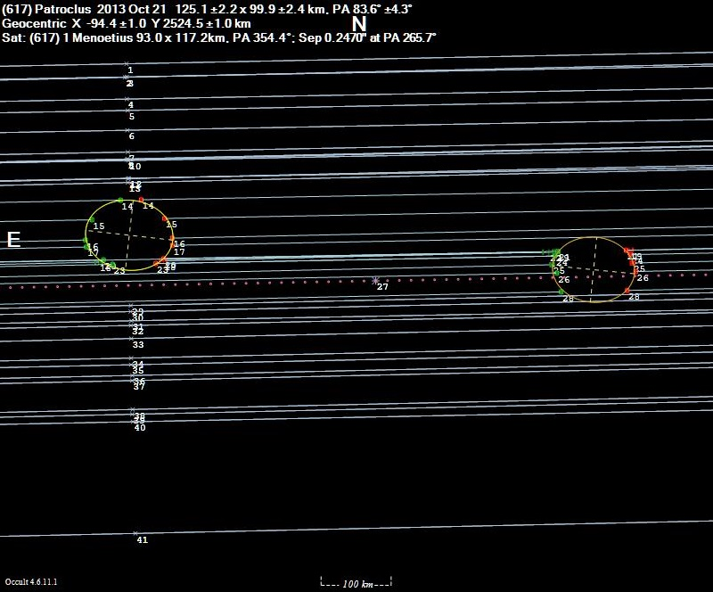 2013 October 21 a team of 41 observers stationed across the USA observed the binary asteroid (617) Patroclus and Menoetius occult a magnitude 8.8 star.